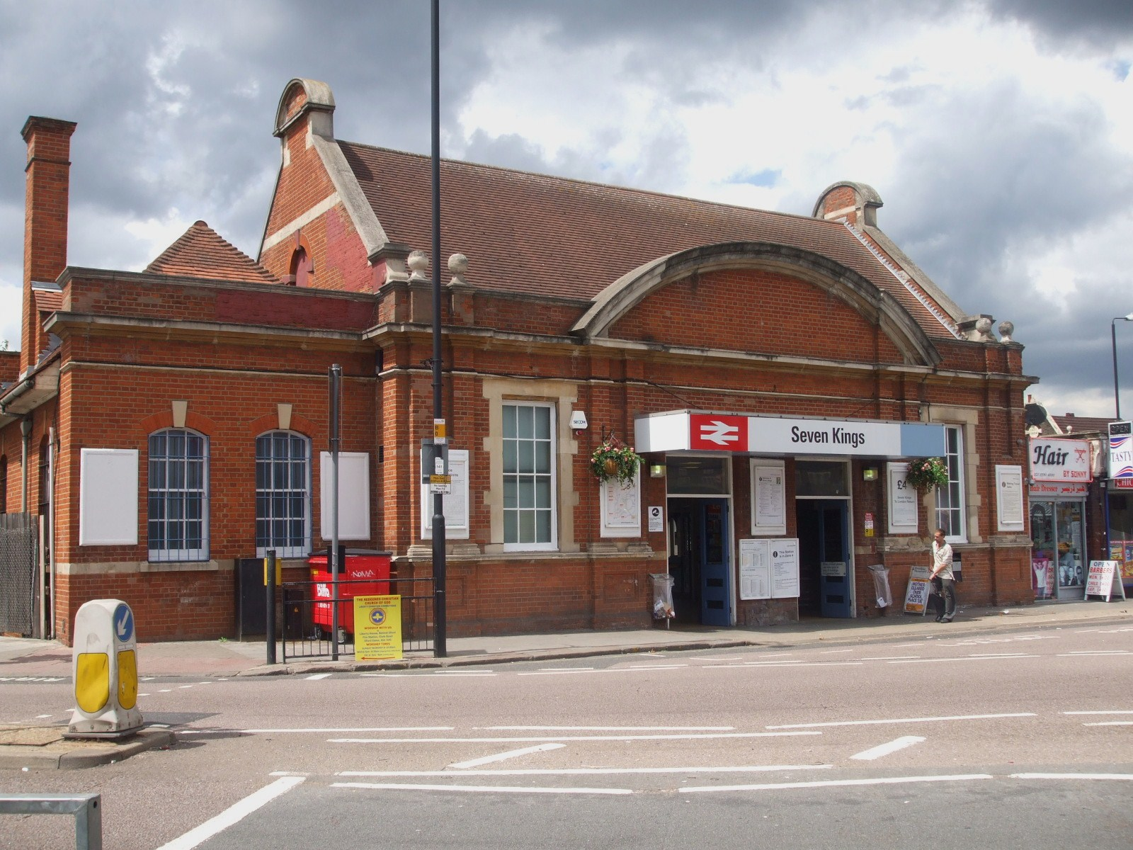 Seven Kings railway station